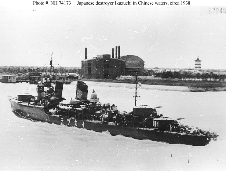 The Ikazuchi, one of the Akatsuki-class destroyers, in Chinese waters, circa 1938.